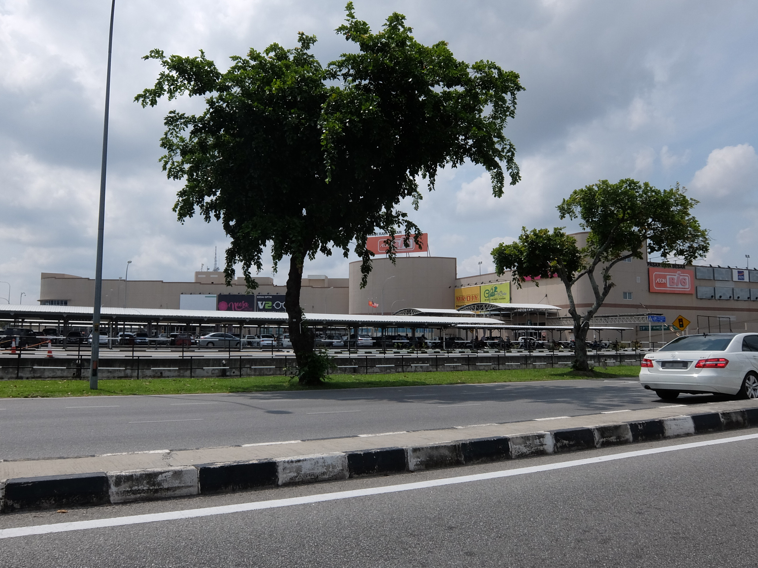 AEON BiG Alor Setar, Alor Setar, Kota Setar, Kedah, Malaysia